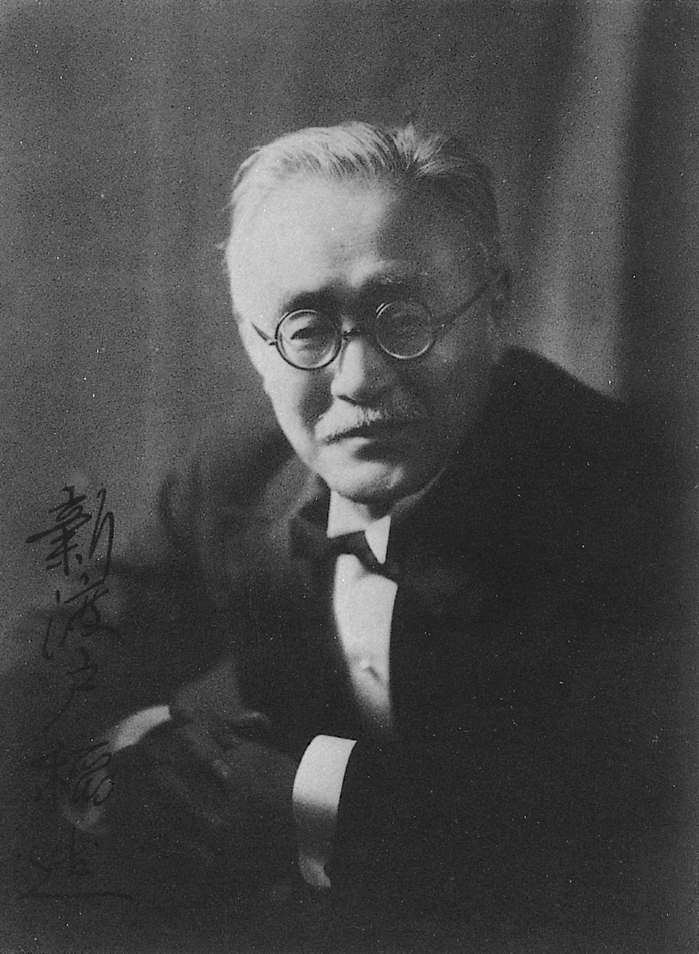 Portrait of Nitobe Inazo (新渡戸稲造, 1862 – 1933)